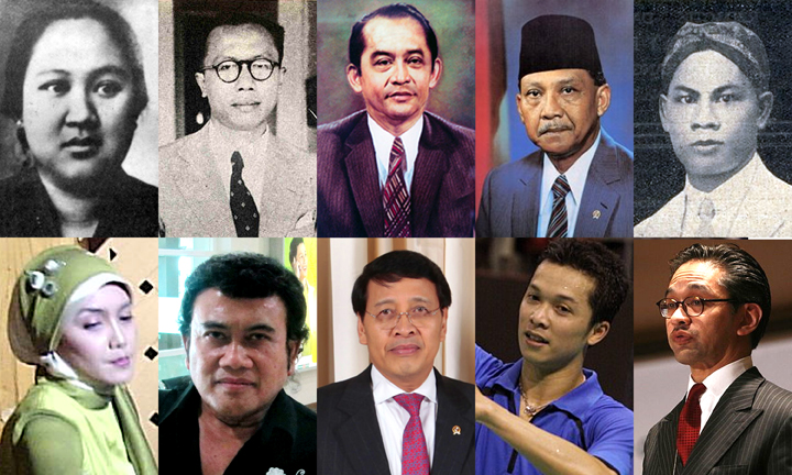 Notable Sundanese people; from top to bottom: top row: Dewi Sartika, Djoeanda Kartawidjaja, Ali Sadikin, Umar Wirahadikusumah, Oto Iskandar di Nata. bottom row: Rieke Dyah Pitaloka, Rhoma Irama, Hassan Wirajuda, Taufik Hidayat, Agum Gumelar, Marty Natalegawa.